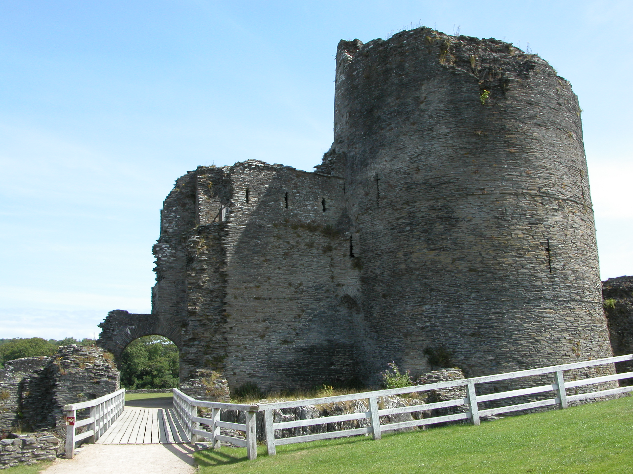 Cilgerran Castle, West tower. By William M. Connolley, August 2005.